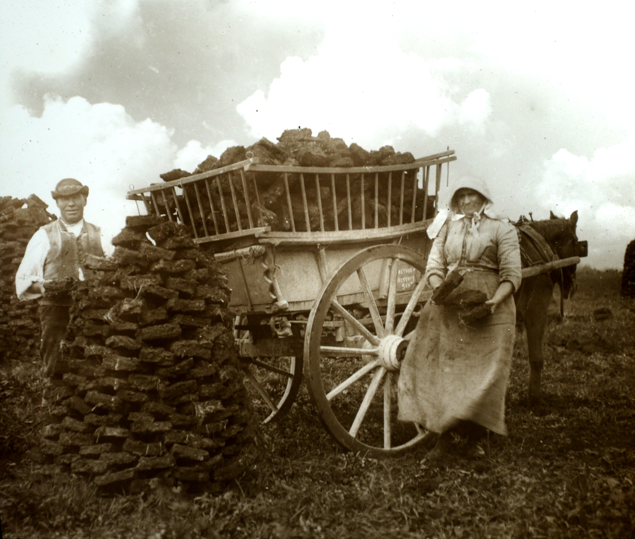 loading the peat cart NB address on cart "Westhay Somst." - Sept 1905 - photo by A.E.Hasse of Baildon York. Original on 6x6 glass slide diapositive